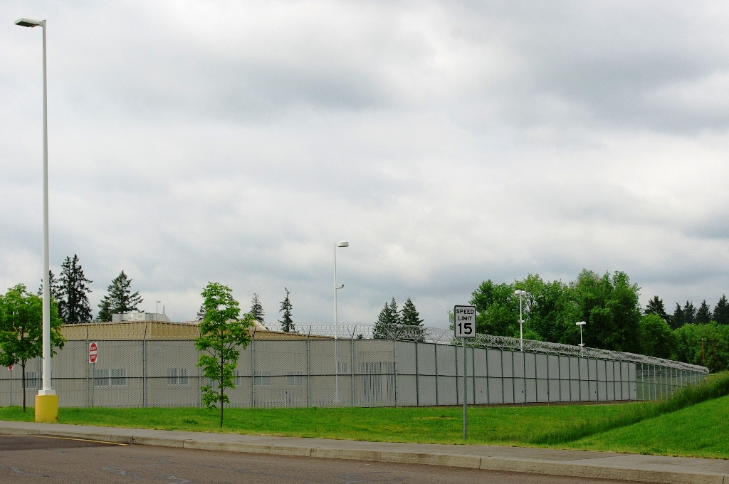 Coffee Creek Correctional Facility in Oregon